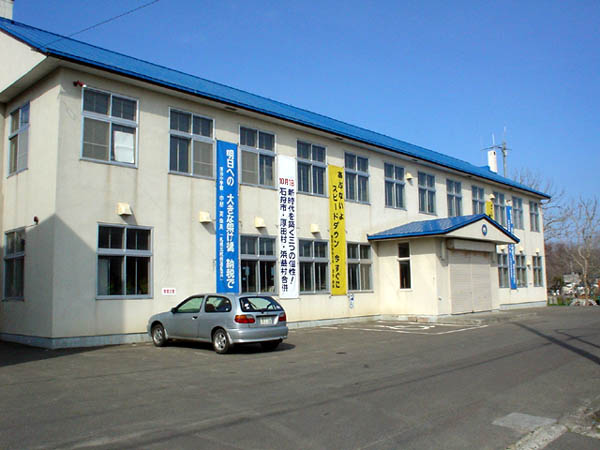 Atsuta Village Office in Hokkaido, Japan